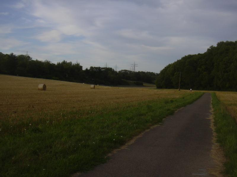 Lower Feuerbach valley in Stuttgart, Germany